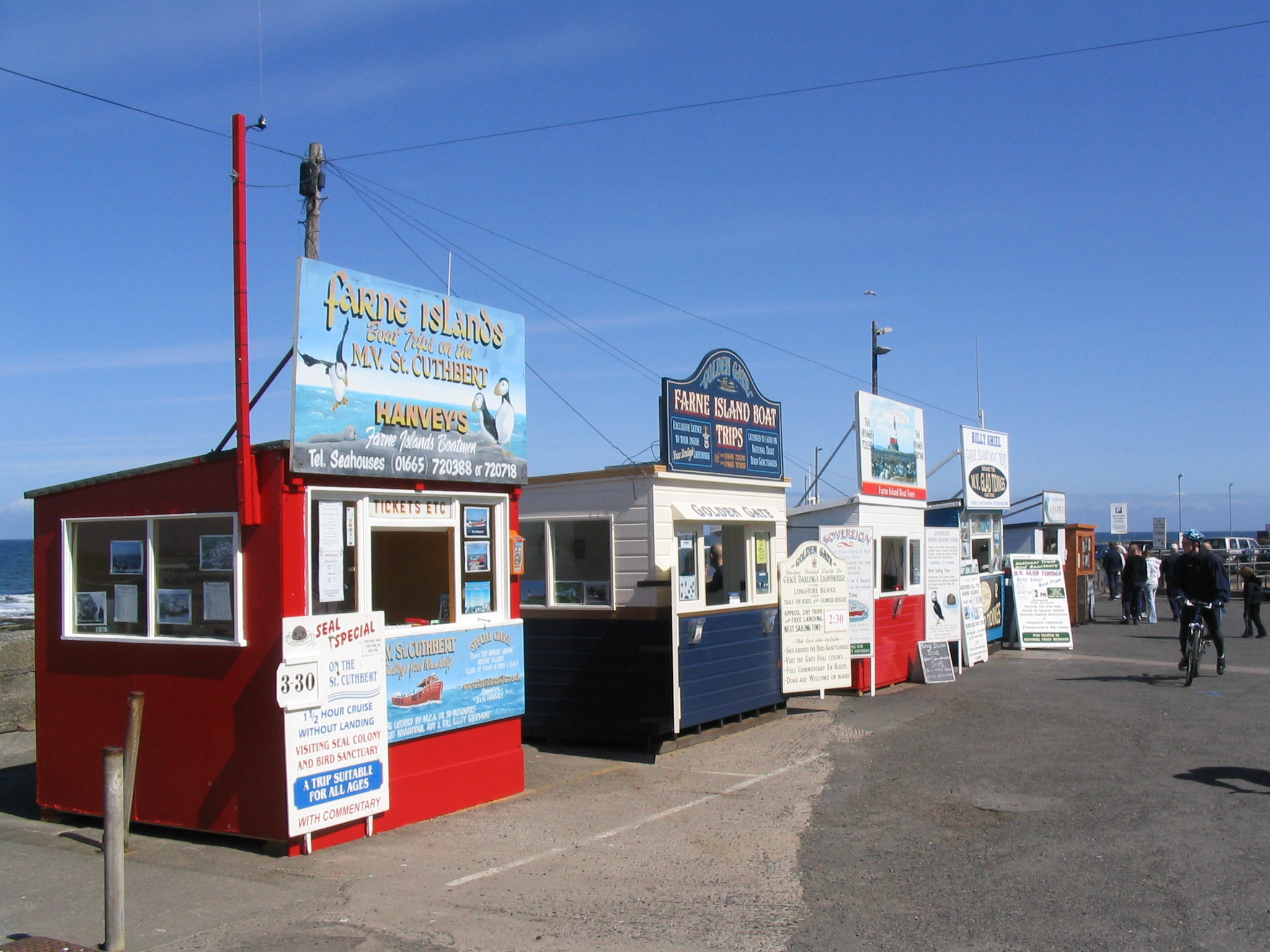 Harbour Seahouse Coast and Castles